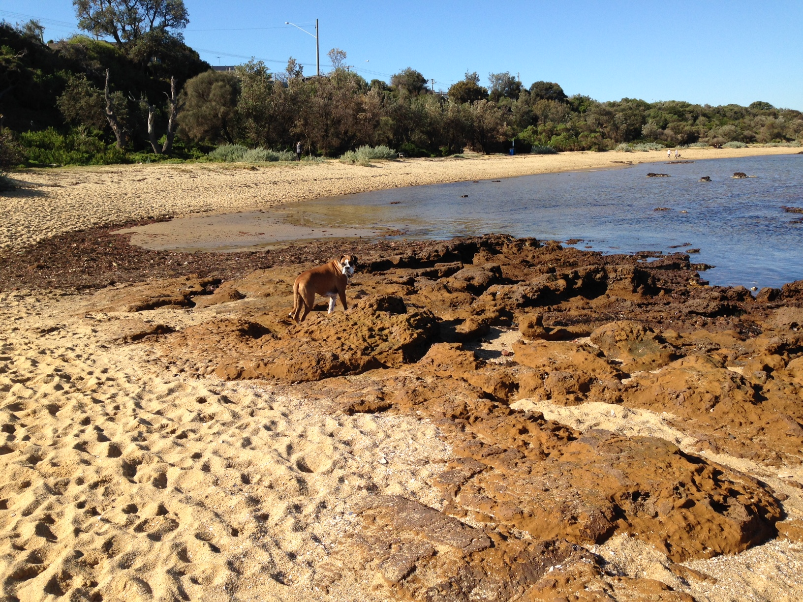 Beach view